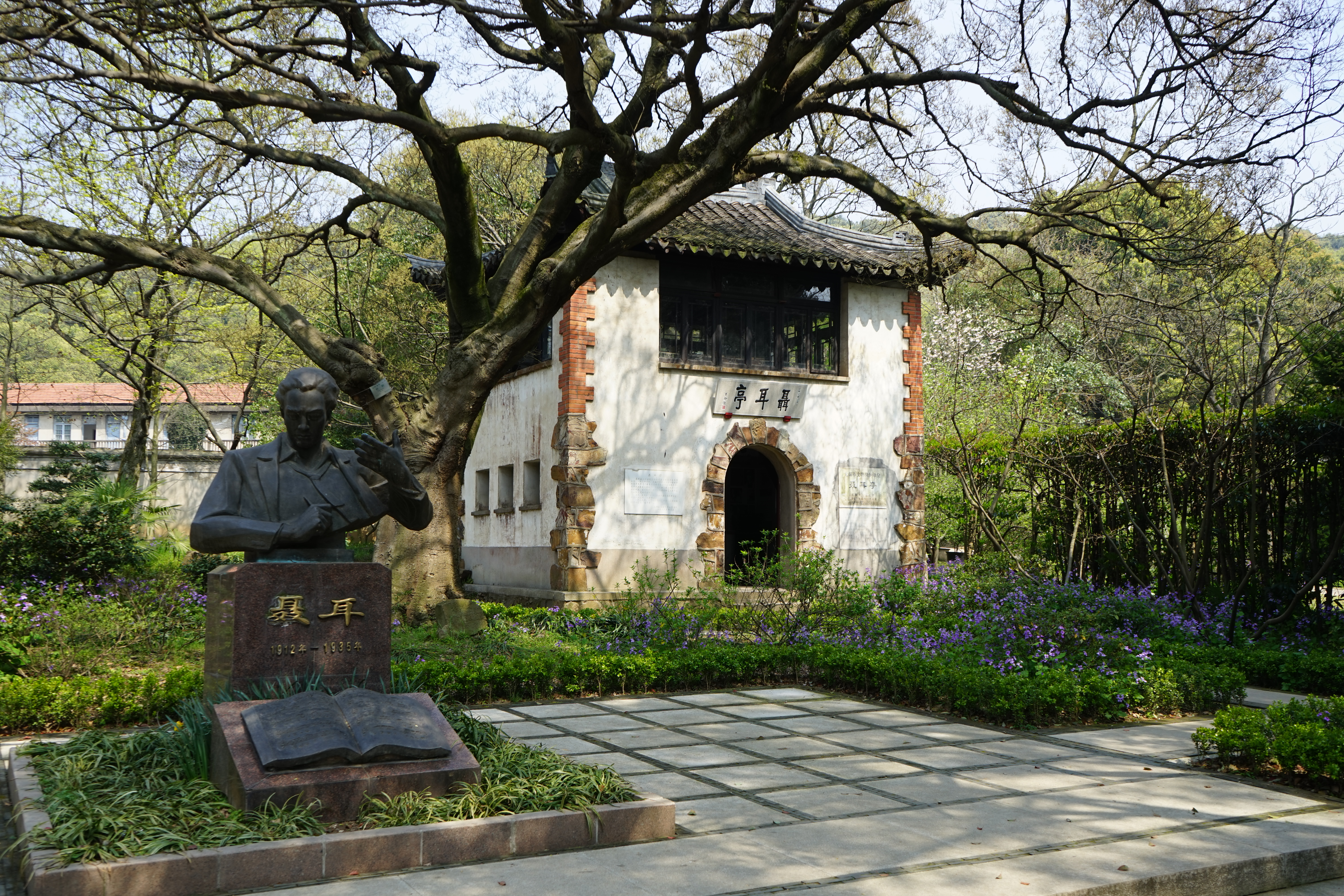 Nie Er Pavilion, in the Turtle Head Park. Originally a small attic in Chen's garden, in 1934, Shanghai Lianhua Film Co. Ltd. shot the exterior scene for film "Road" and Ni Er lived here to compose music. After foundation of the People's Republic it's named Ni Er Pavilion and is added with memorial room and bust of Nie Er.